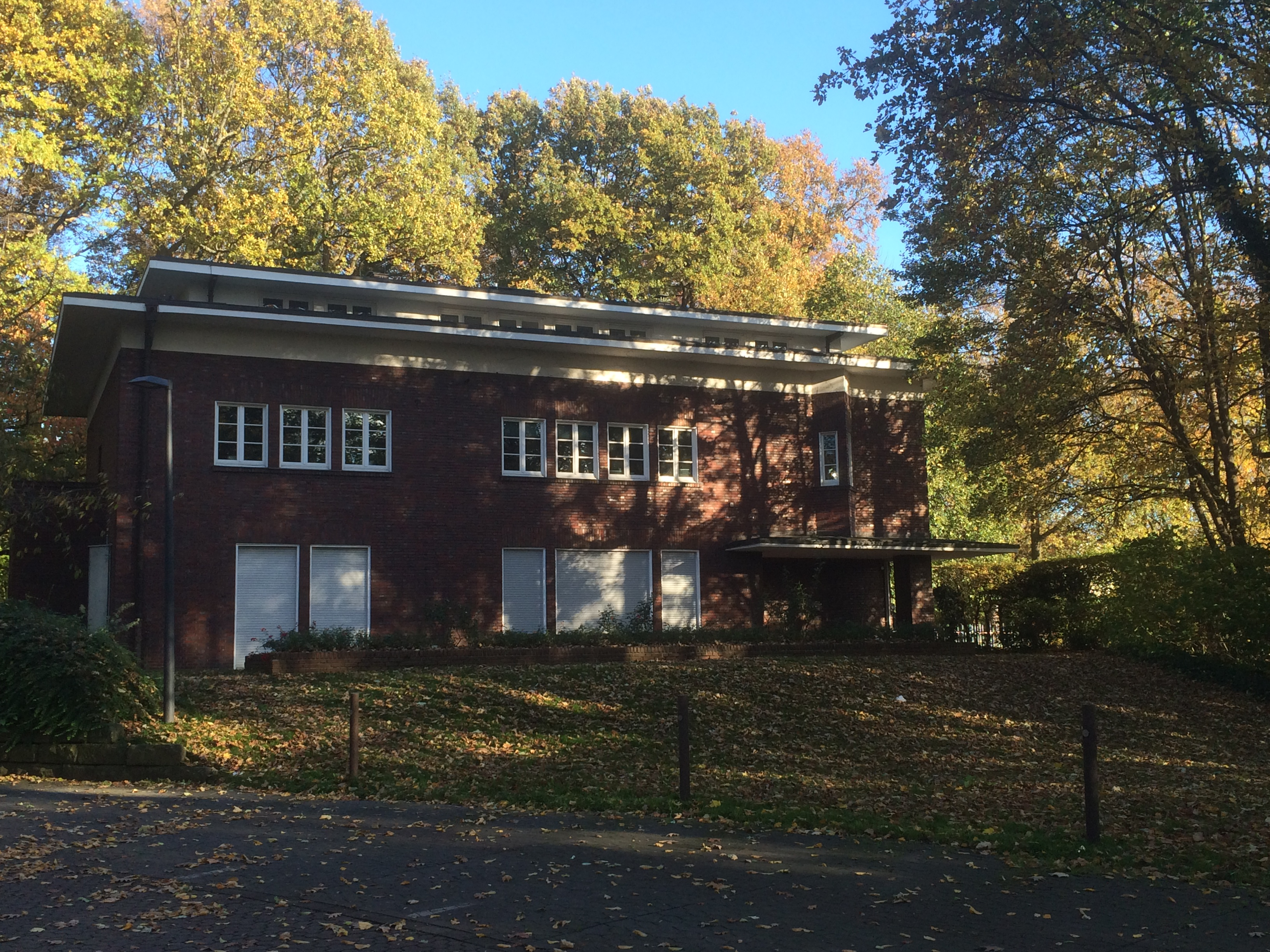 North-Western full View of Plange Mansion in Soest, architect Bruno Paul